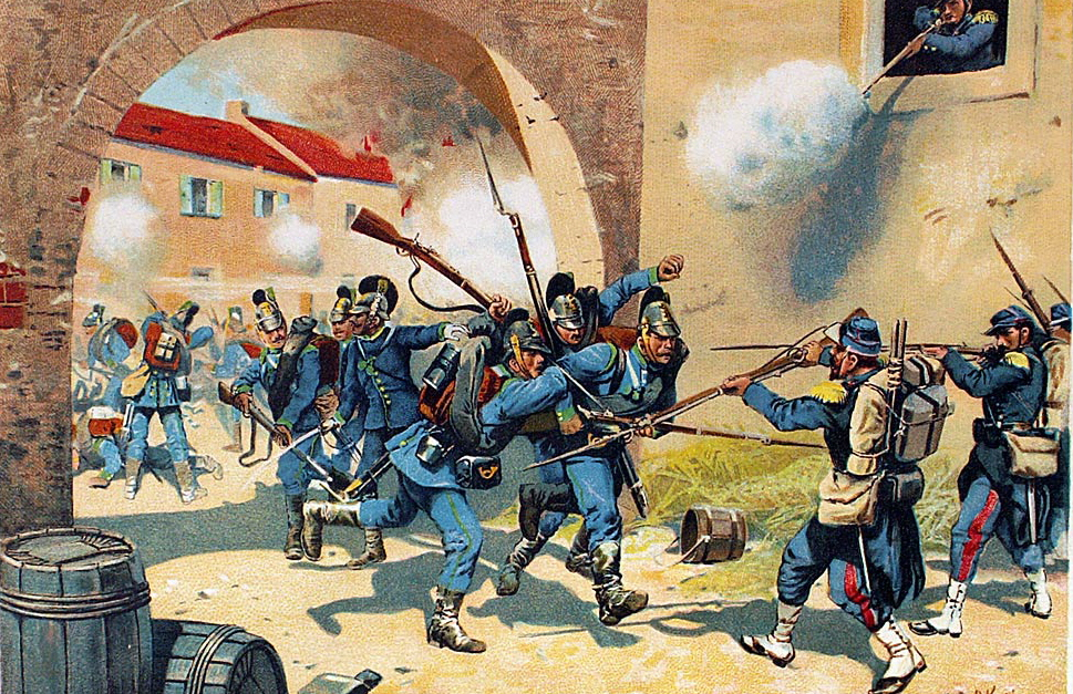 Bavarian soldiers in the battle of Bazeilles (Franco-Prussian war 1870-1871)